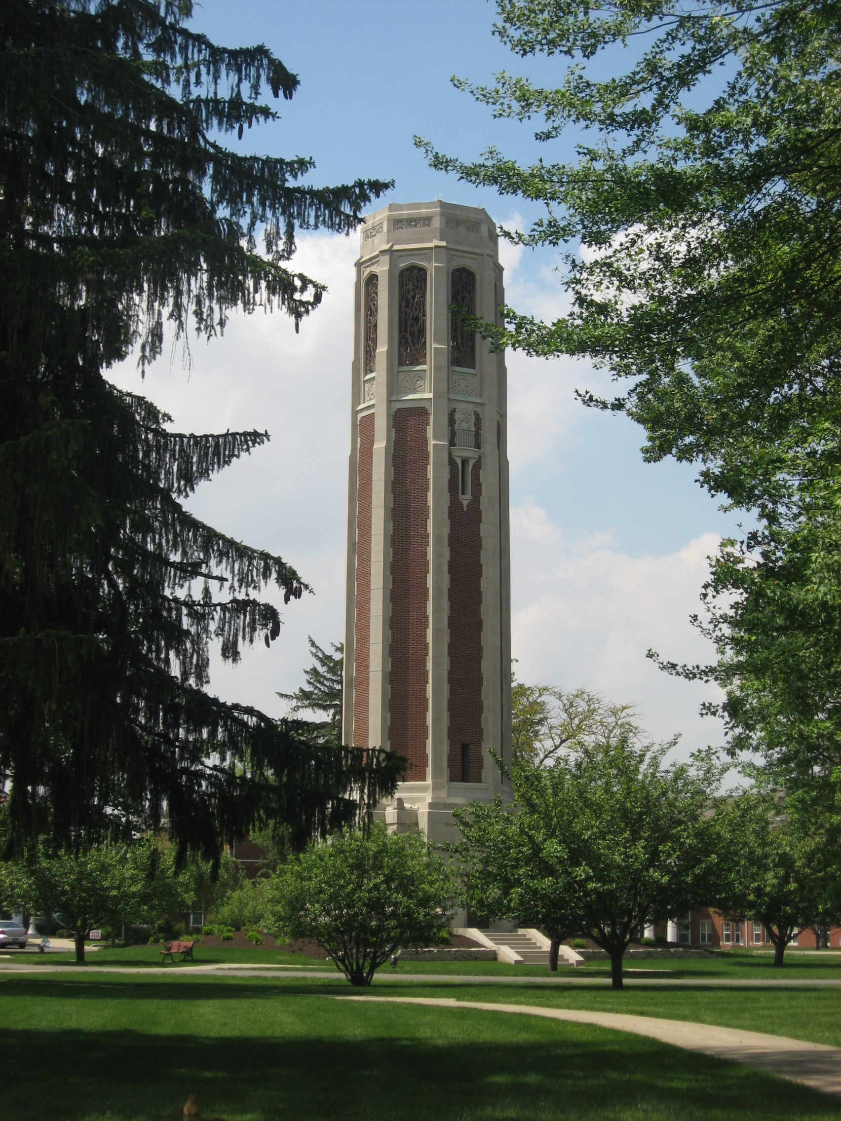 View from the southeast of the Peabody Memorial Tower, located at 400 W. Seventh Street in North Manchester, Indiana, United States. Built in 1936, it is listed on the National Register of Historic Places.